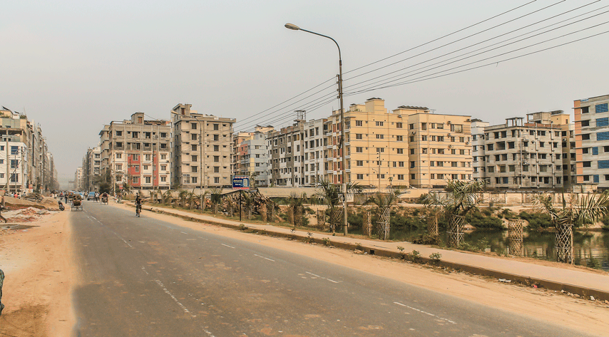 DOHS Mirpur